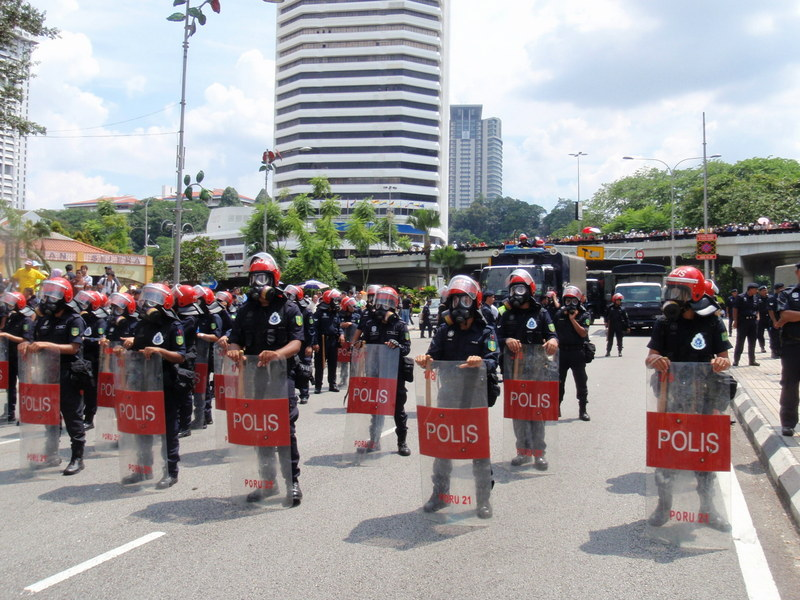 Federal Reserve unit with gas masks waiting for the protesters